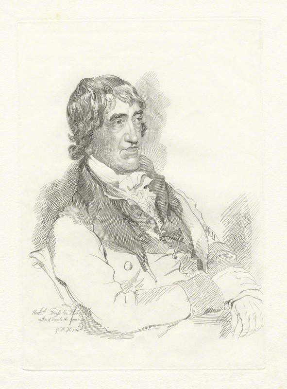 Portrait etching by Richard Twiss (1747–1821), English writer of books on travel and chess.